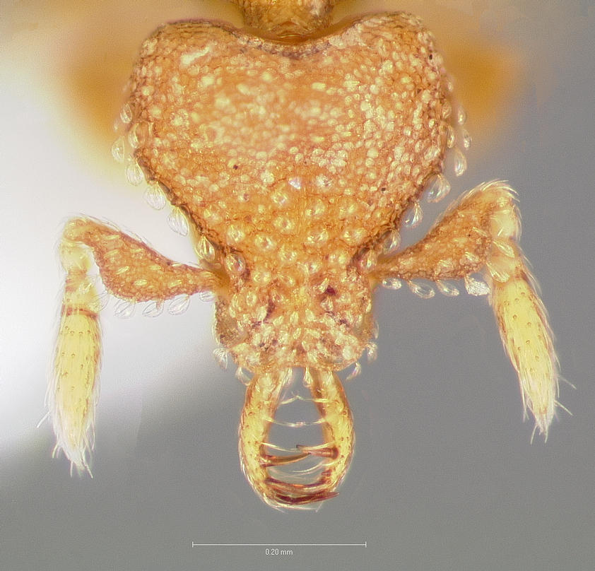 Head view of ant Strumigenys charino specimen casent0005507.